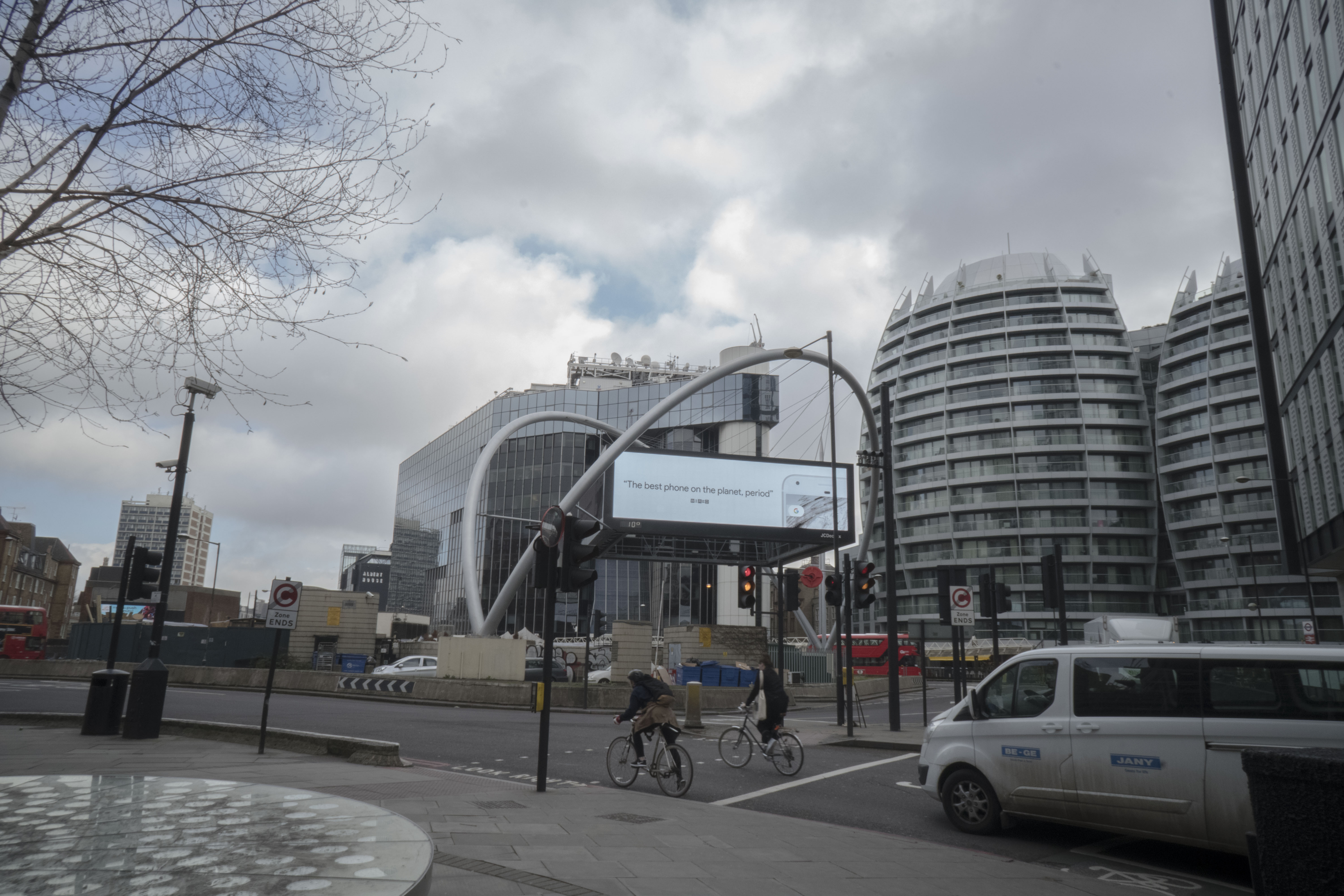 East London Tech City